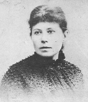 Photo of Maria Konopnicka, end of XIX century